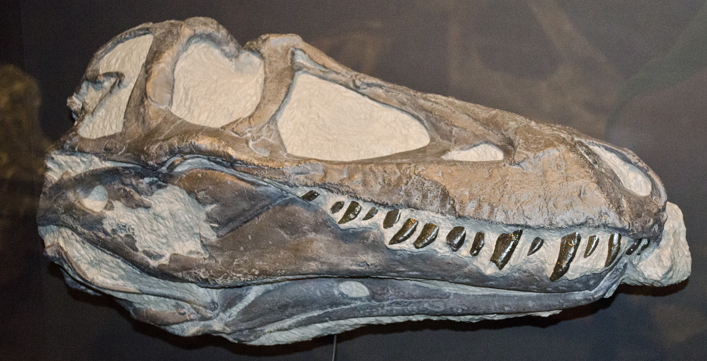 A cast of a juvenile Daspletosaurus skull at the Museum of the Rockies in Bozeman, Montana. Daspletosaurus is one of the tyrannosaurids. It lived just before T. rex, and although not quite as big it had a very heavy skull with massive bones. This cast is of a skull found in Glacier County, Montana. Although Daspletosaurus specimens in Canada have been fully described as Daspletosaurus torosus, the Montana specimens have not yet been completely examined. It is possible that the Montana specimens may be two sub-genuses of the Daspletosaurus family.